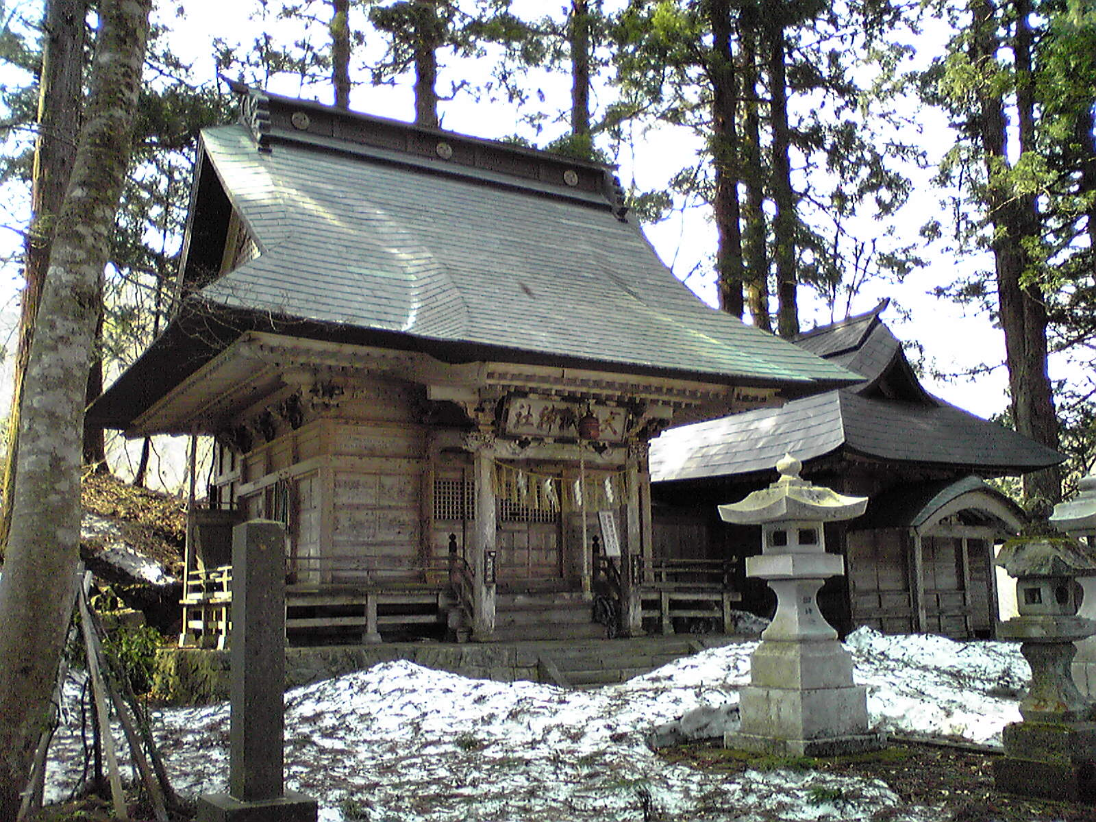 Okumiya, Oyamazumi Shrine, Fukushima, Japan.